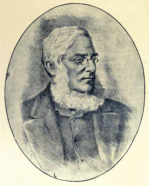 Charles Aiken Fairbridge 1824-1893 - Cape Book Collector and Member of Parliament